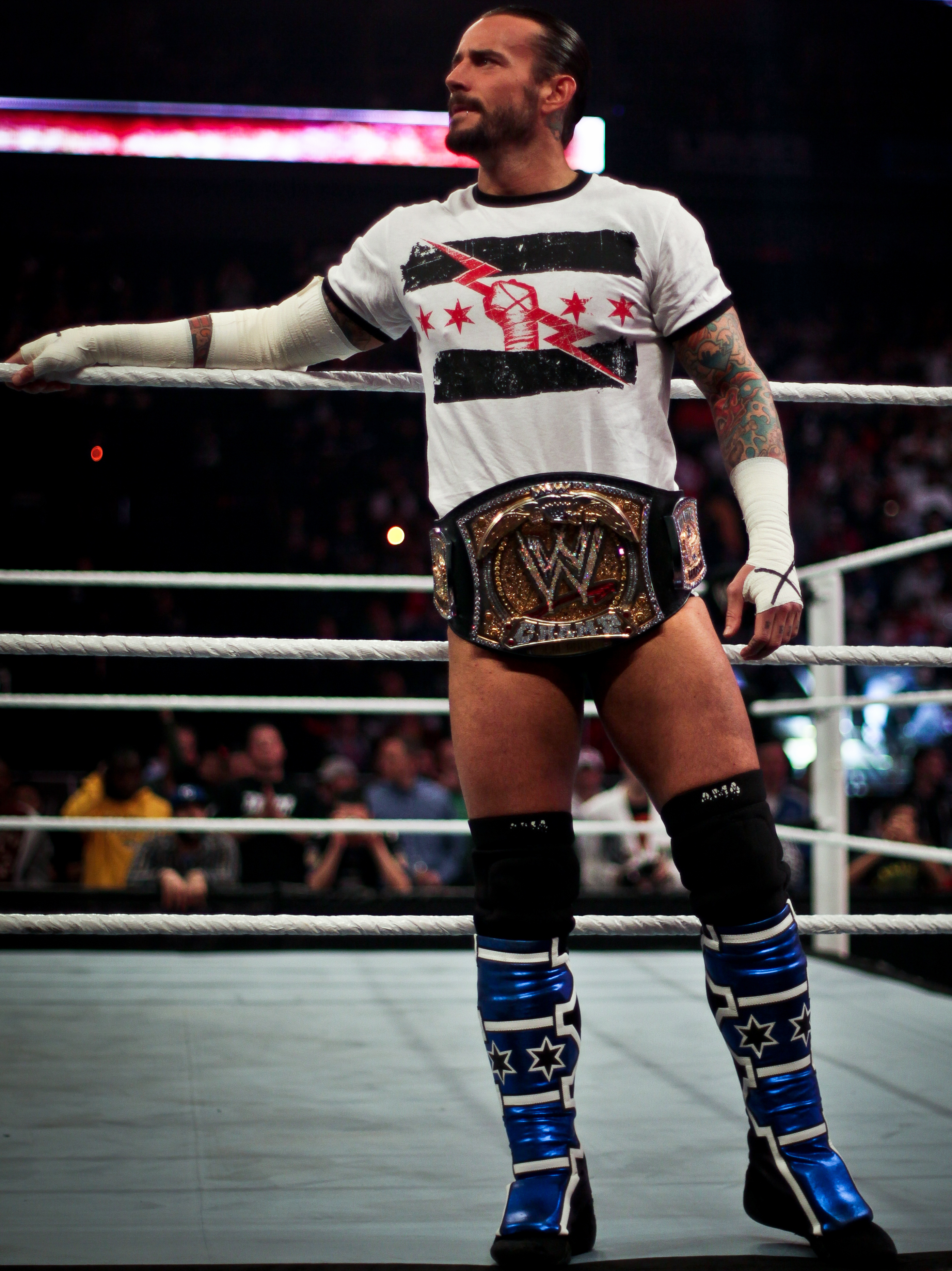 WWE Champ CM Punk on the January 30, 2012 episode of WWE Raw. Cropped from original.